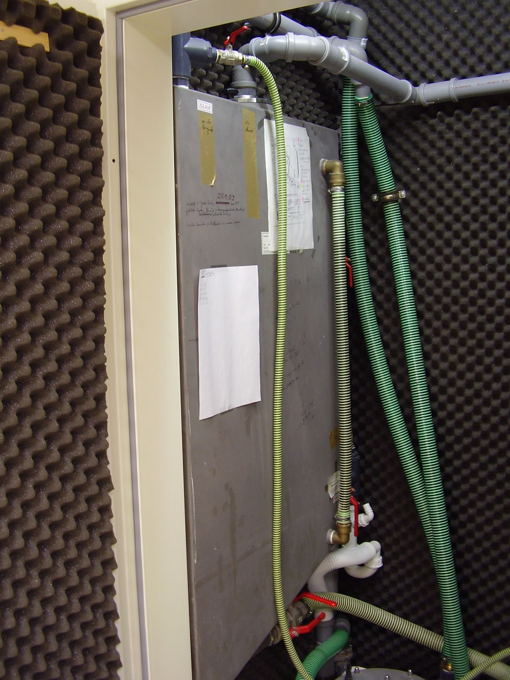 Filtration unit for dental amalgam, to protect the environment from dental amalgam. this devices functions by sedimentation. Though there a other smaller devices integrated into the dental unit, that functions like a centrifuge.